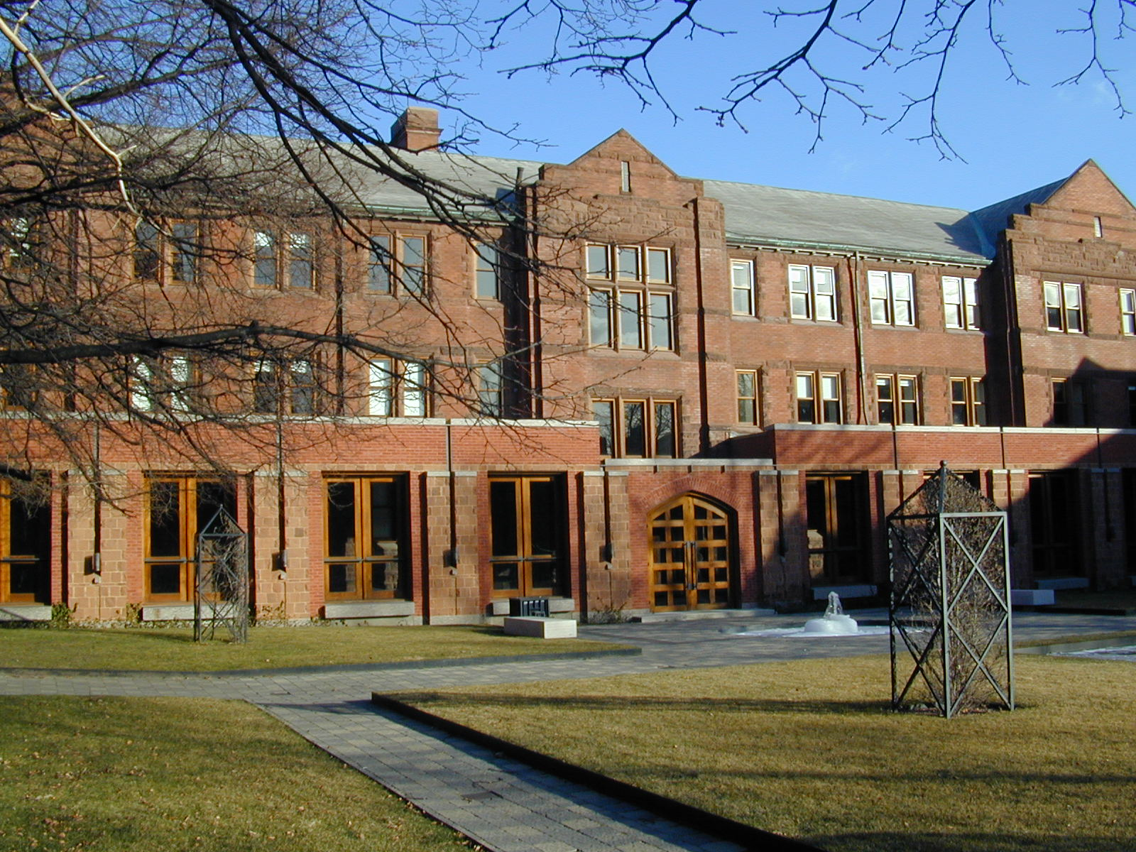 John W. Graham Library, University of Trinity College, University of Toronto. Photo by paradiso.